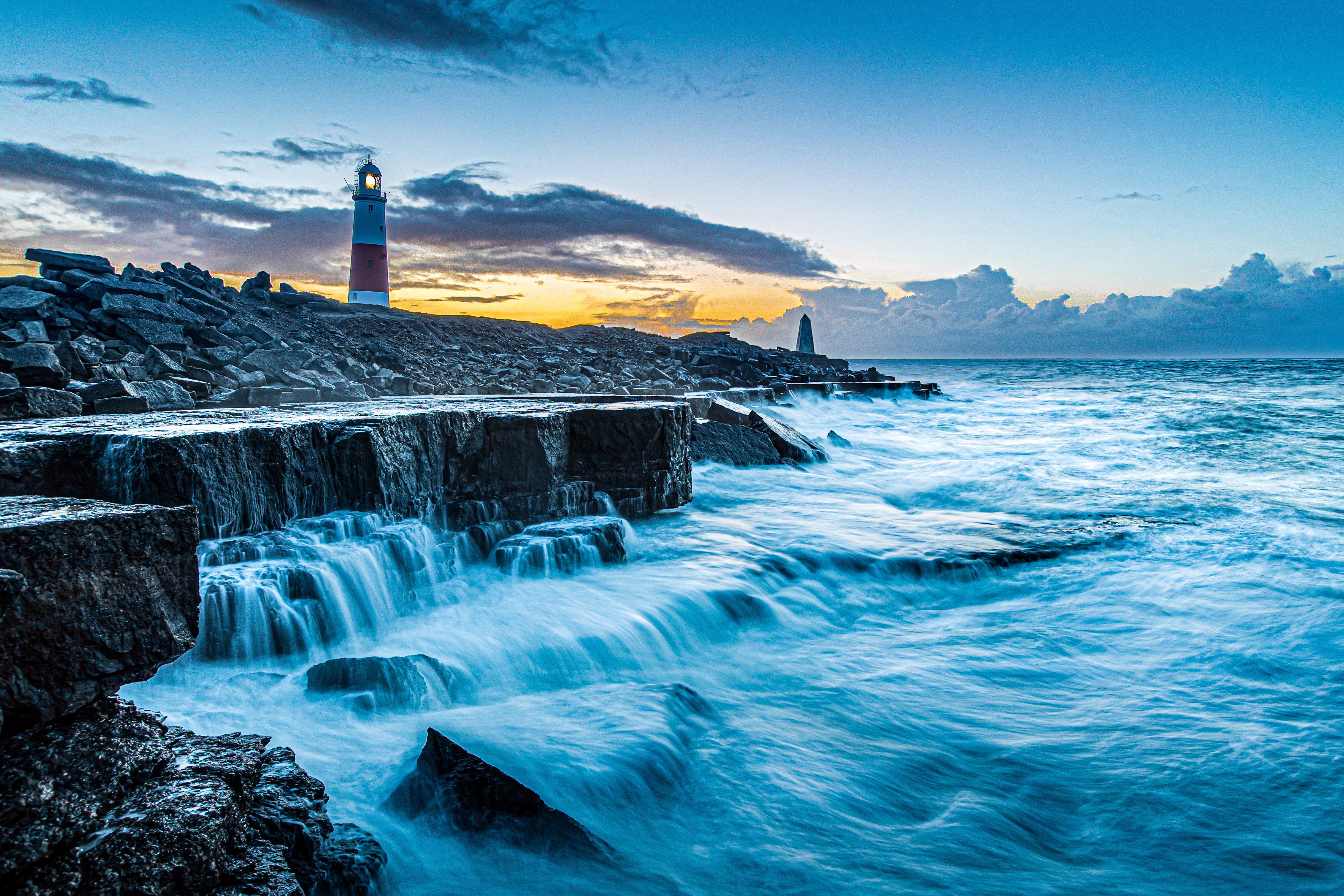 Portland Bill Lighthouse at dawn Wikidata has entry Q2753005 with data related to this item.